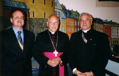 Scanned and modified picture for the cv afrikahilfe archives. free of use